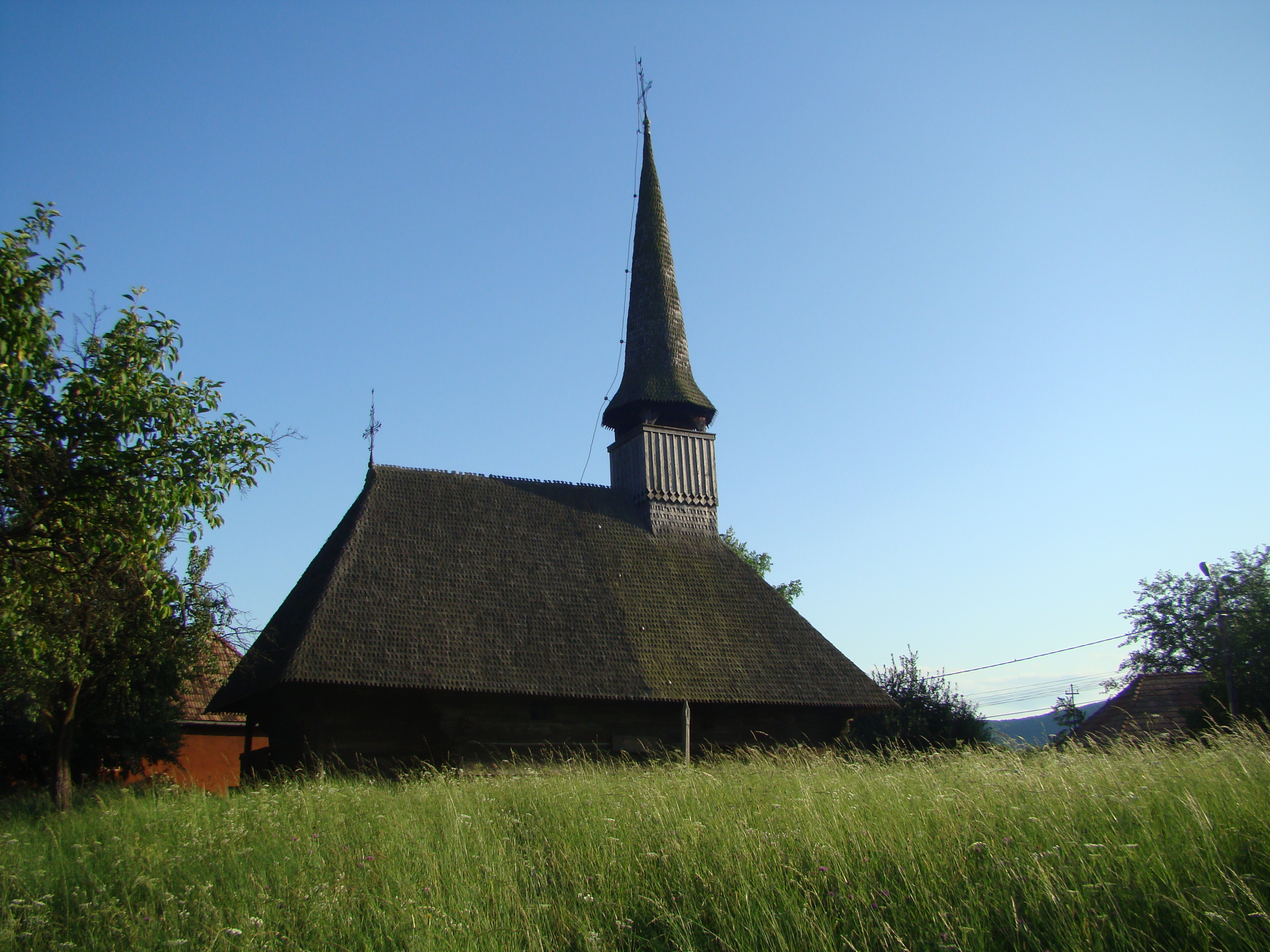 Wooden church in Sărata, Bistrița-Năsăud county